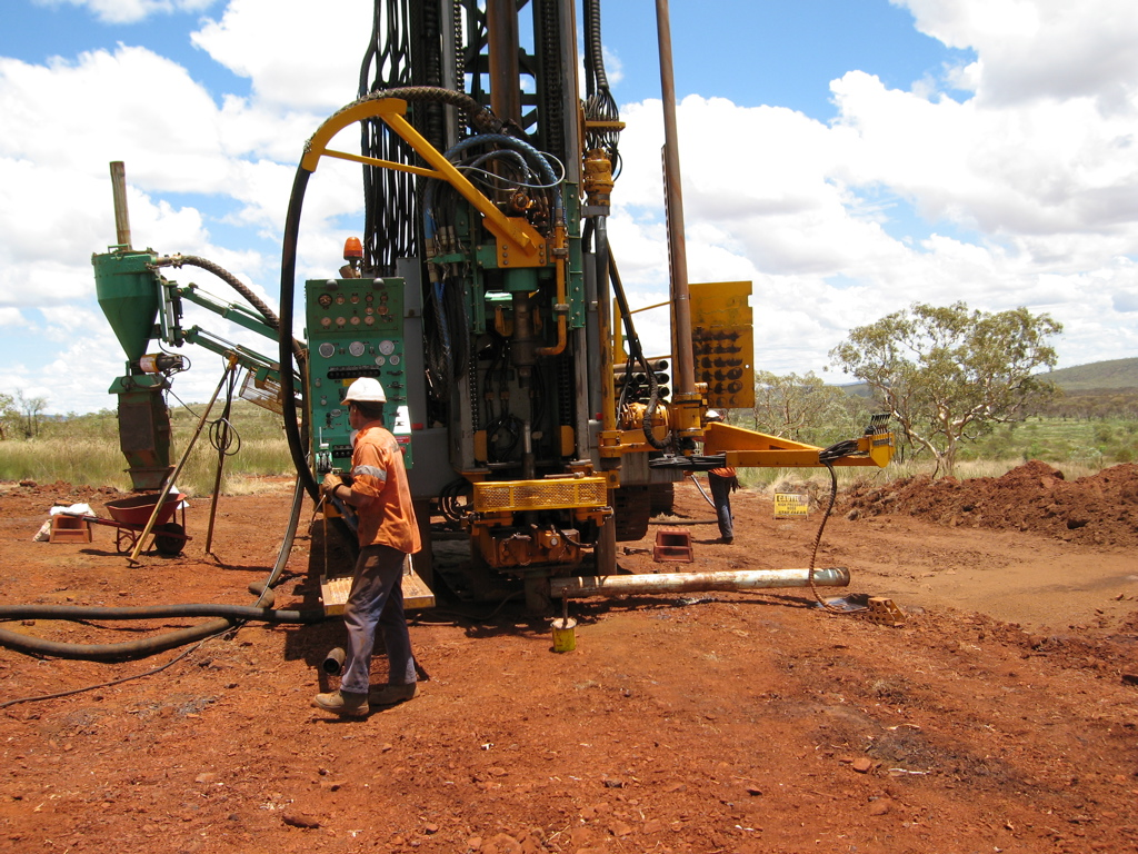 This photo was taken by User:Blastcube, at Area C a BHP Billiton minesite about 180 km outside of Newman, Western Australia